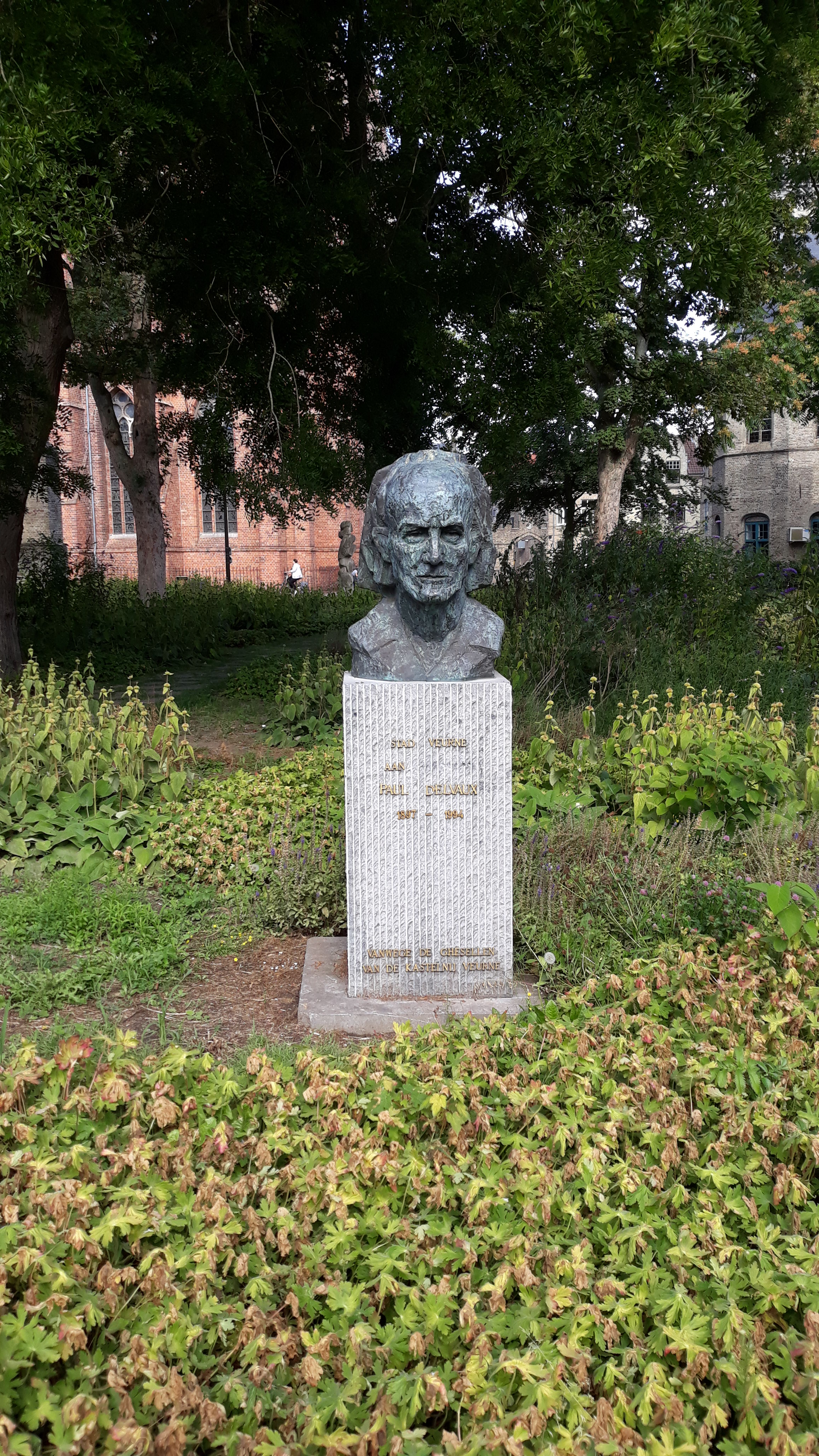 Monument to the Belgian painter Paul Delvaux by Fernand Vanderplancke in Walburgapark in the City of Veurne (West-Vlaanderen, Belgium).